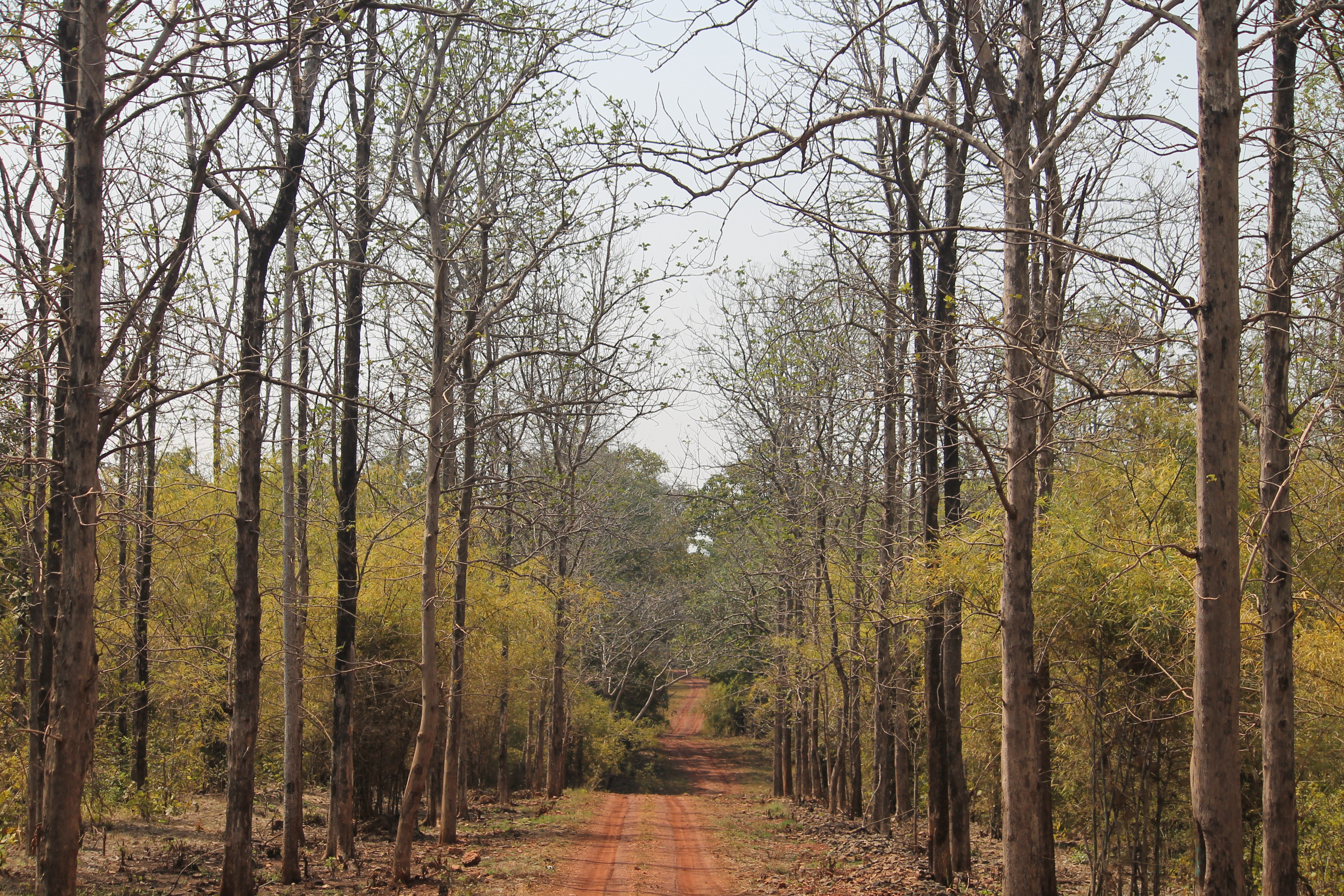 Pench National park, nestling in the lower southern reaches of the satpuda hills is named after Pench river, meandering through the park from north to south. It is located on the southern boundary of Madhya Pradesh, bordering Maharashtra, in the districts of Seoni and Chhindwara. The undulating topography supports a mosaic of vegetation ranging from moist, sheltered valleys to open, dry deciduous forest. Over 1200 species of plants have been recorded from the area including several rare and endangered plants as well as plants of ethno-botanical importance. The area has always been rich in wildlife. It is dominated by fairly open canopy, mixed forests with considerable shrub cover and open grassy patches.